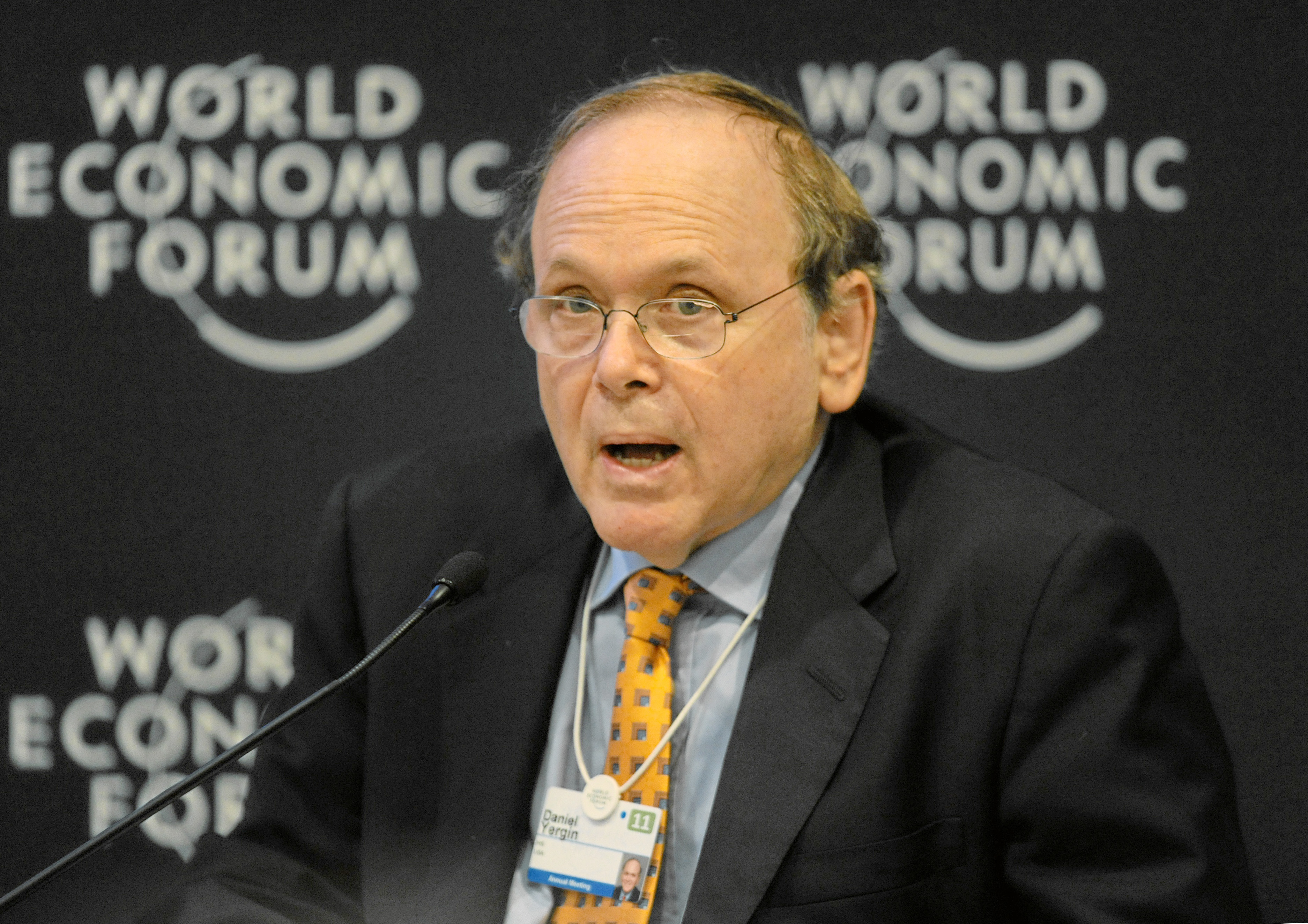 DAVOS/SWITZERLAND, 29JAN11 - Daniel Yergin, Chairman, IHS CERA, USA; Global Agenda Council on Energy Security speaks during the session 'Managing the Basics: Water, Food and Energy' at the Annual Meeting 2011 of the World Economic Forum in Davos, Switzerland, January 29, 2011.. . Copyright by World Economic Forum. by Michael Wuertenberg